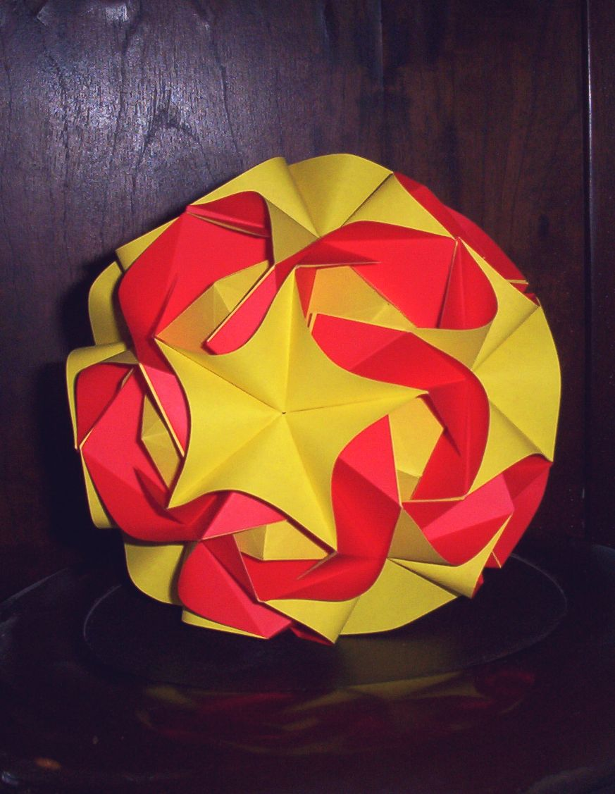 Sonobe system, 30 papers, base module my design. 3D render of a single module, assembly instructions.